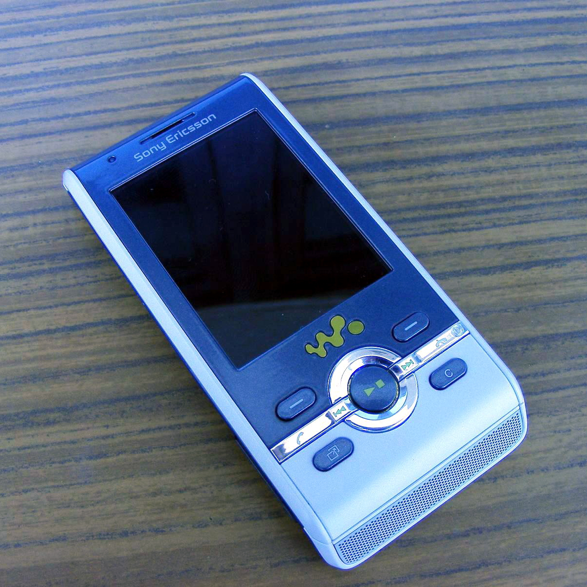 Sony Ericsson W595